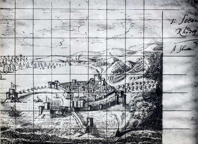 Engraving over 300 years ole hence in public domain